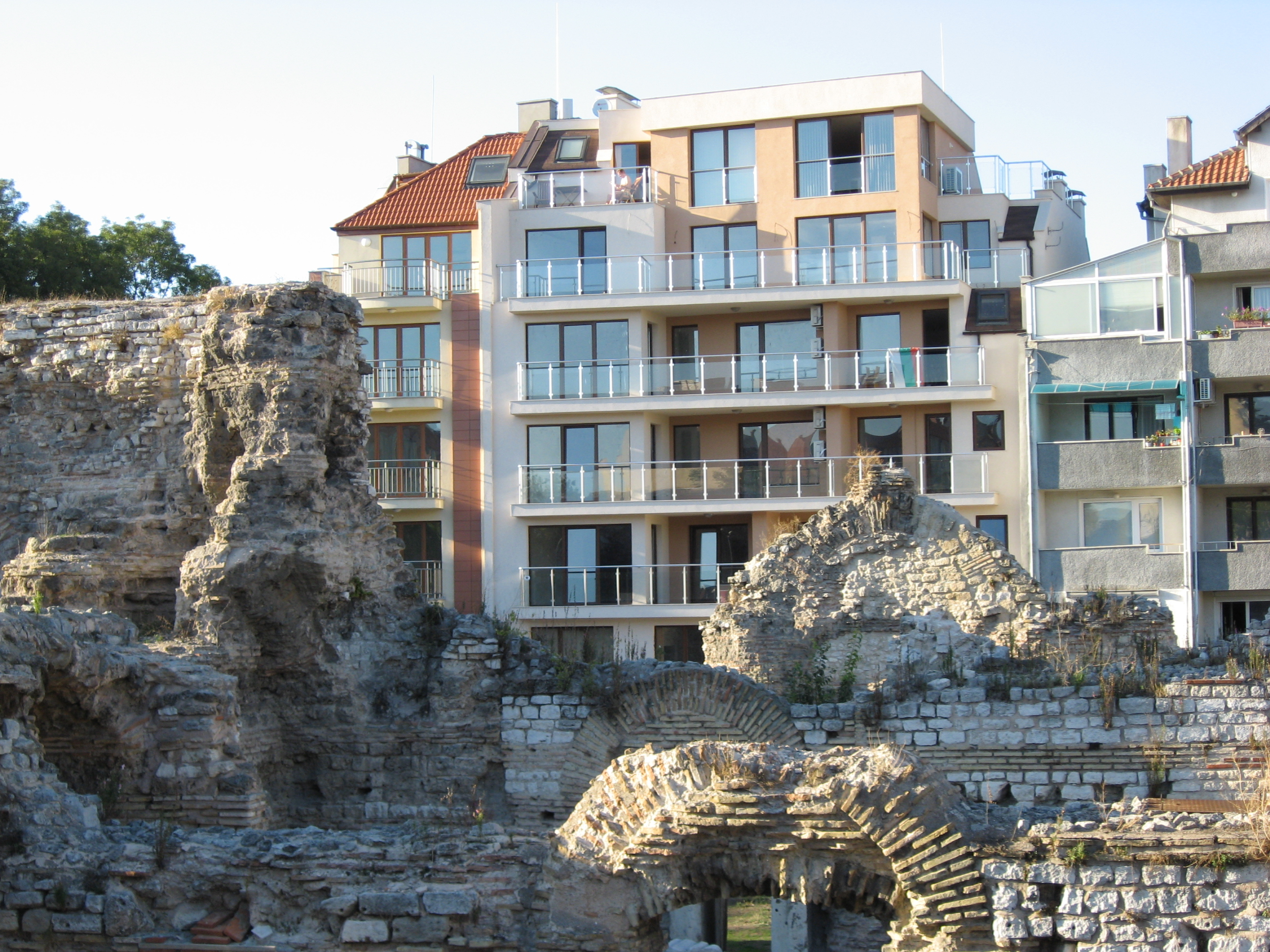 Ancient Roman Baths in Varna, Bulgaria